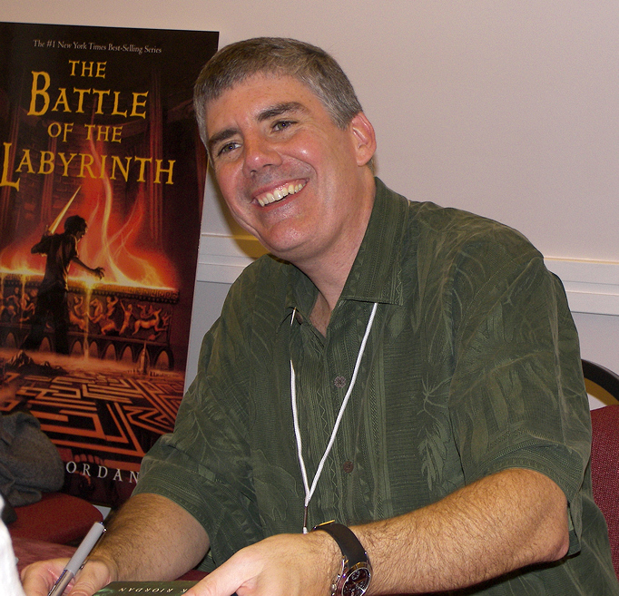 Rick Riordan at the 2007 Texas Book Festival in Austin, Texas, United States.